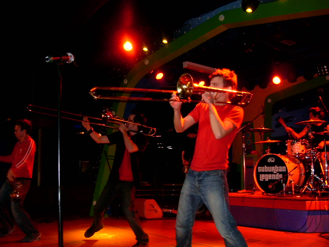 Photo of Dallas Cook performing with Suburban Legends (Brian Robertson, Aaron Bertram, Derek Lee Rock and Brian Klemm can be seen in the background). The Suburban Legends on stage at Disneyland's Tomorrowland Club Buzz restaurant.